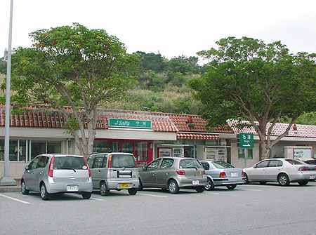 Nakagusuku PA(Rest area)